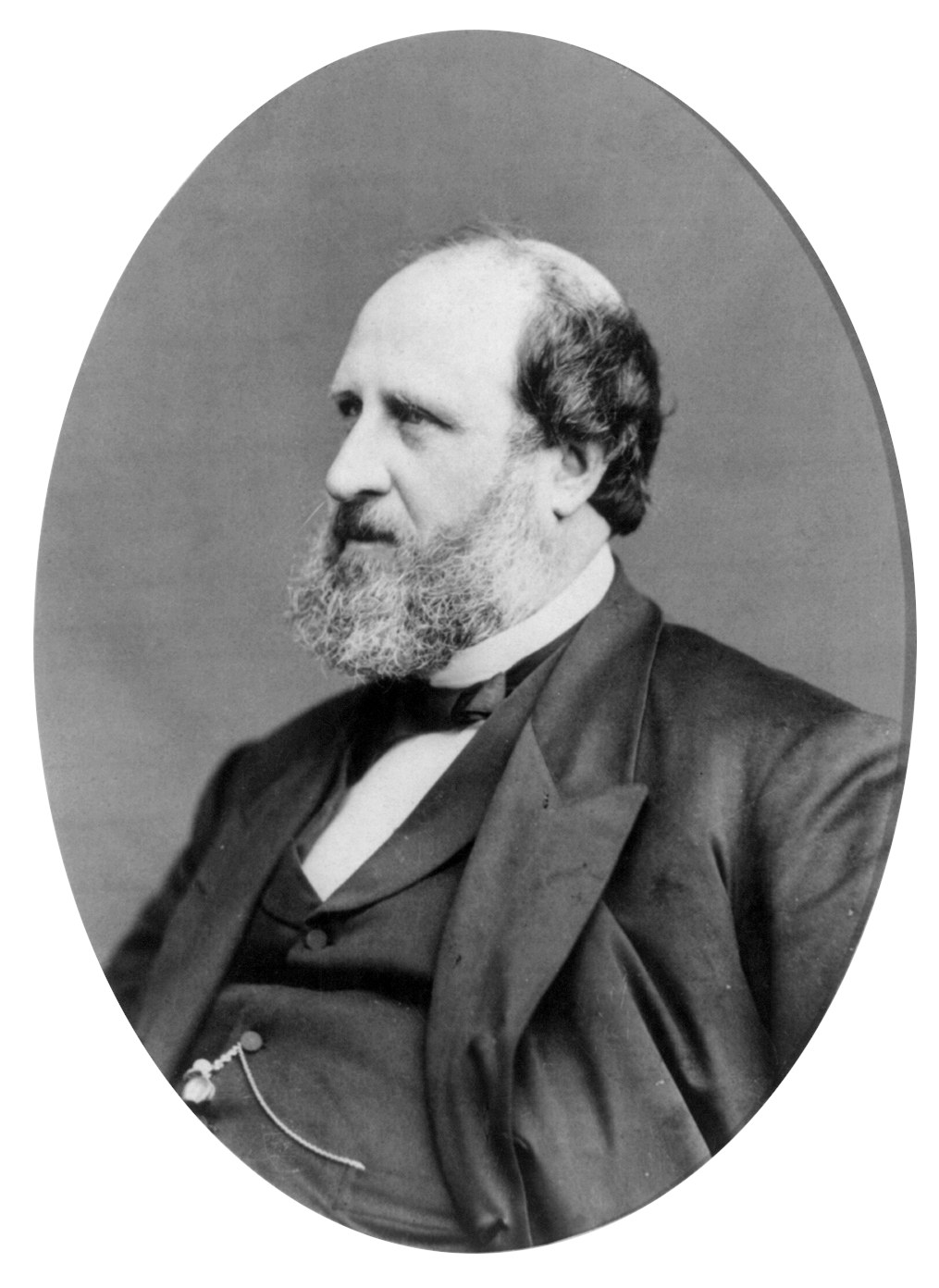 William Marcy "Boss" Tweed (1823—1878)